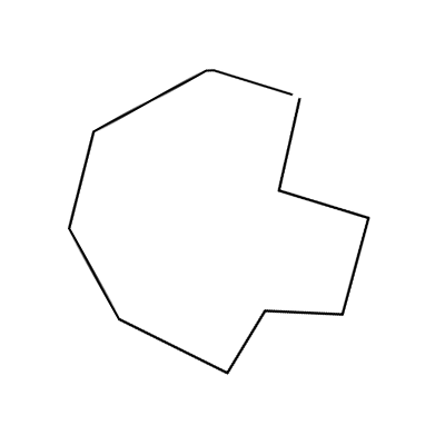 Shape of big asteroid of Arcade game Asteroids, simple geometry